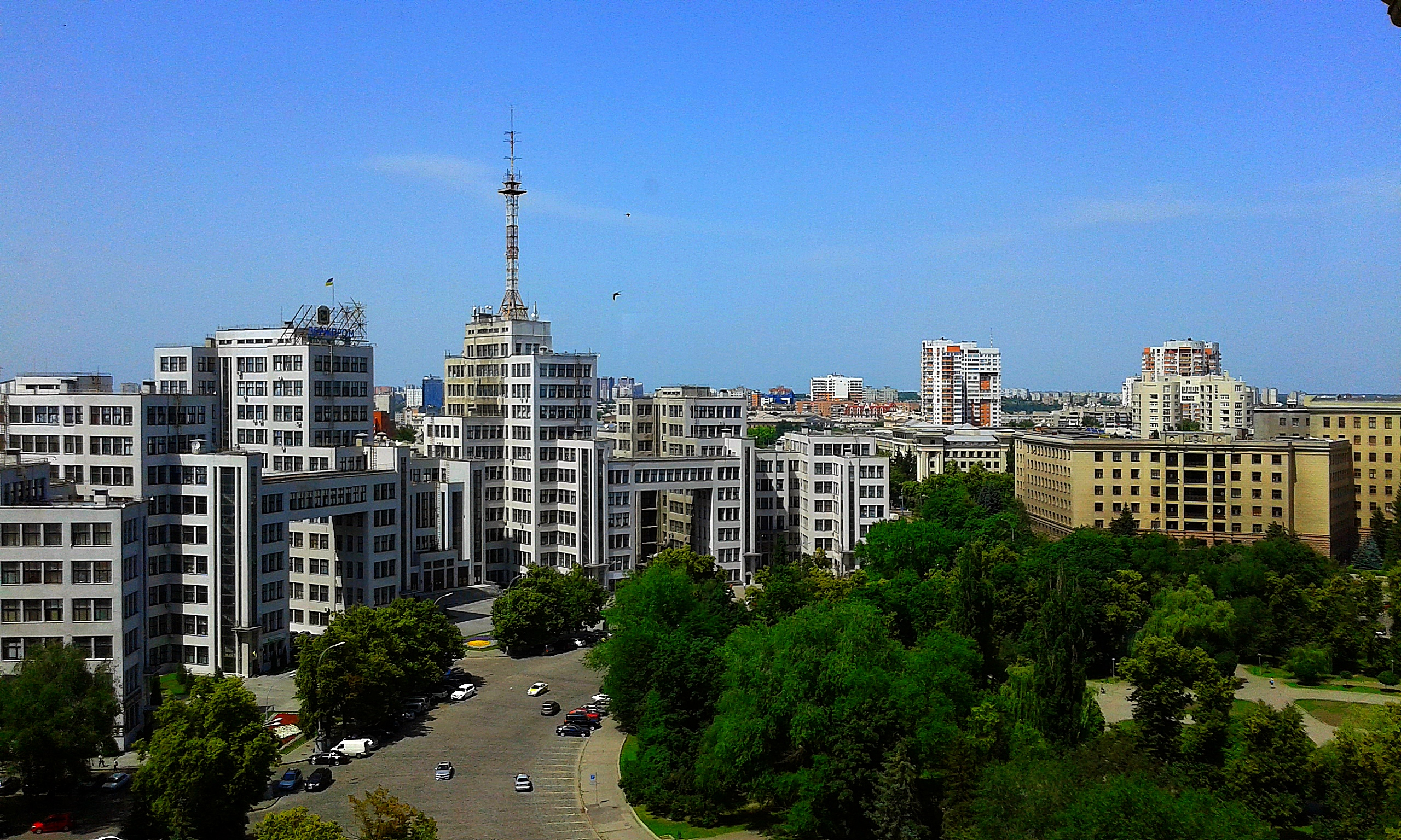 (44) PANORAMIC VIEW ON DOWNTOWN IN CITY OF KHARKIV STATE OF UKRAINE PHOTOGRAPH BY VIKTOR O LEDENYOV 20160621